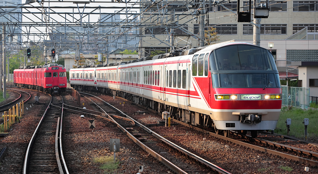 Meitetsu Panorama Super 1000 series EMU (right) and 6000 series EMU (left), at Jingū-mae Station ( 1114 - 1514F ).